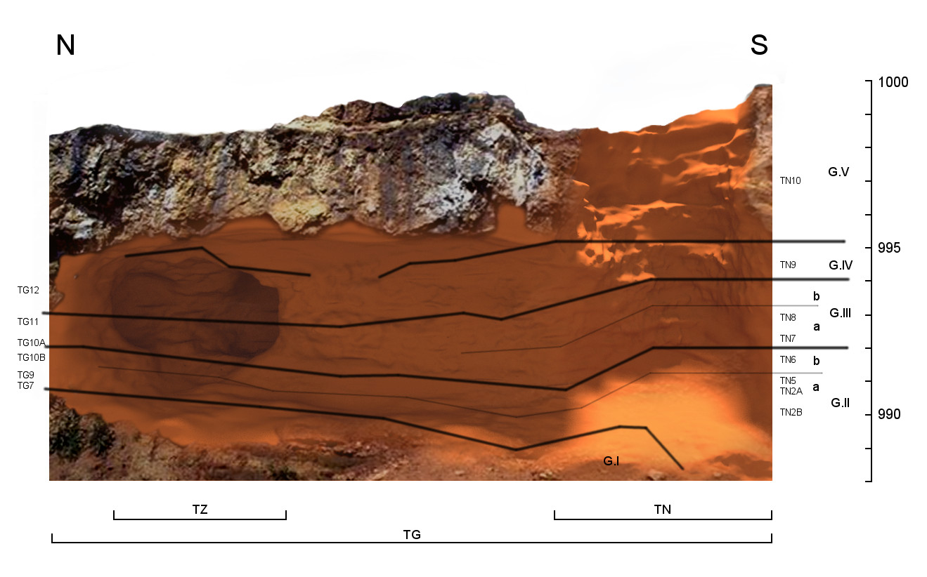 Galeria stratigraphy